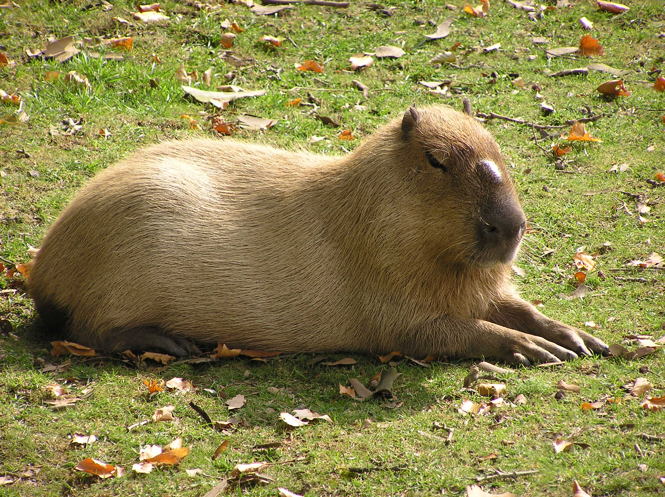 Hydrochoeris hydrochaeris, photographed in Prague ZOO